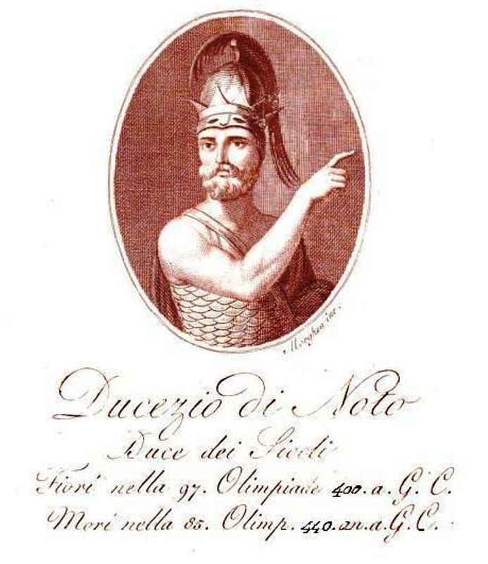 The pictorial history of Ducezio, The King of Sicoli or king of ancient people, Greek-Siceliota. He governed on Sicoli and Sicania lands, about 370-80 BC. This image is a optical manufacture, was printed in 1827.